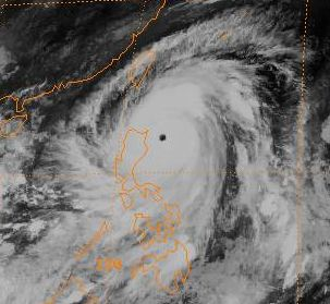 Typhoon Clara of 1981